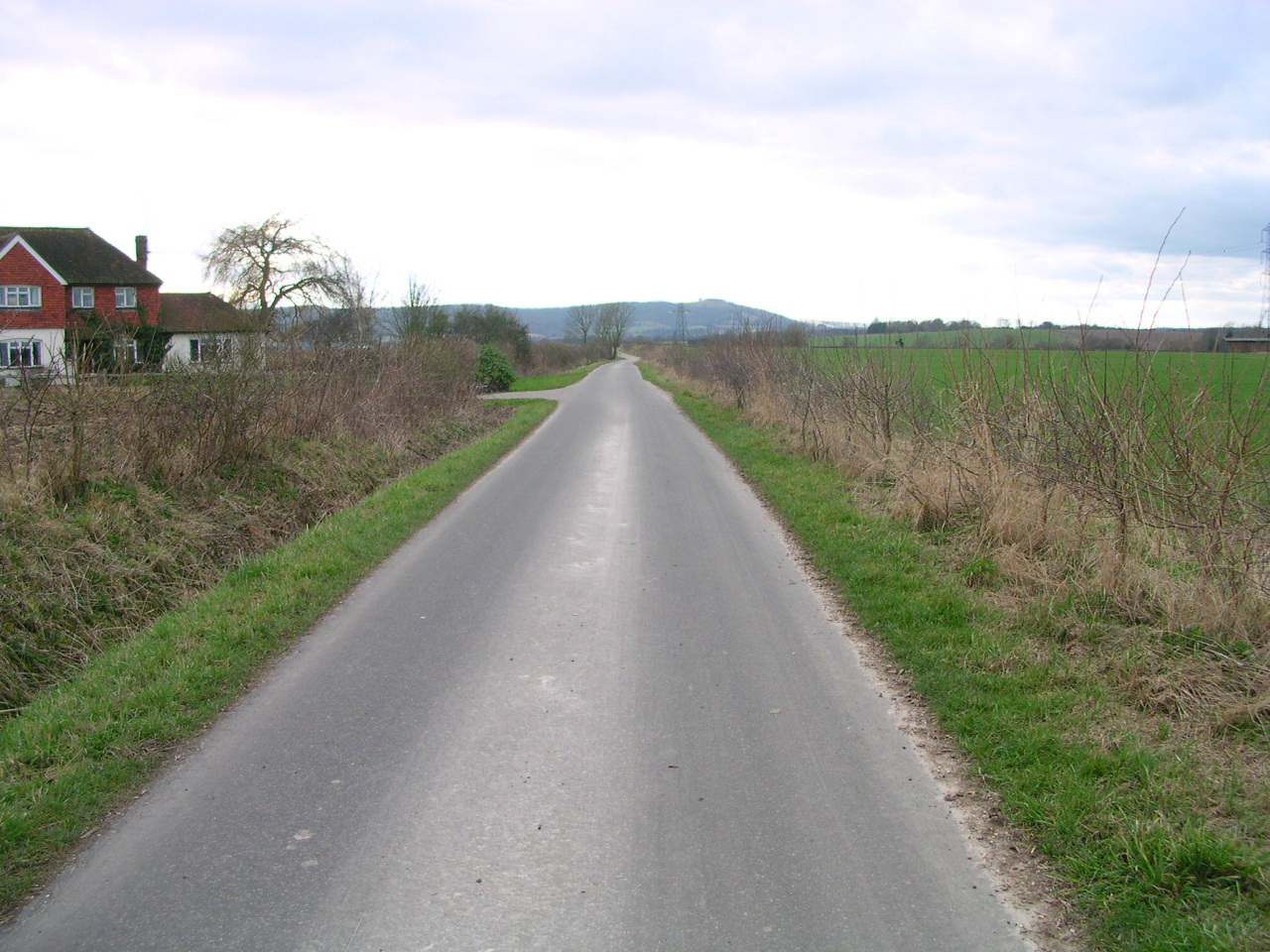 Track on the Greensand Way Roman road at Stretham near Small Dole, West Sussex, England.